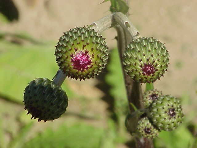 Species: Cirsium canum Family: Compositae Image No. 1